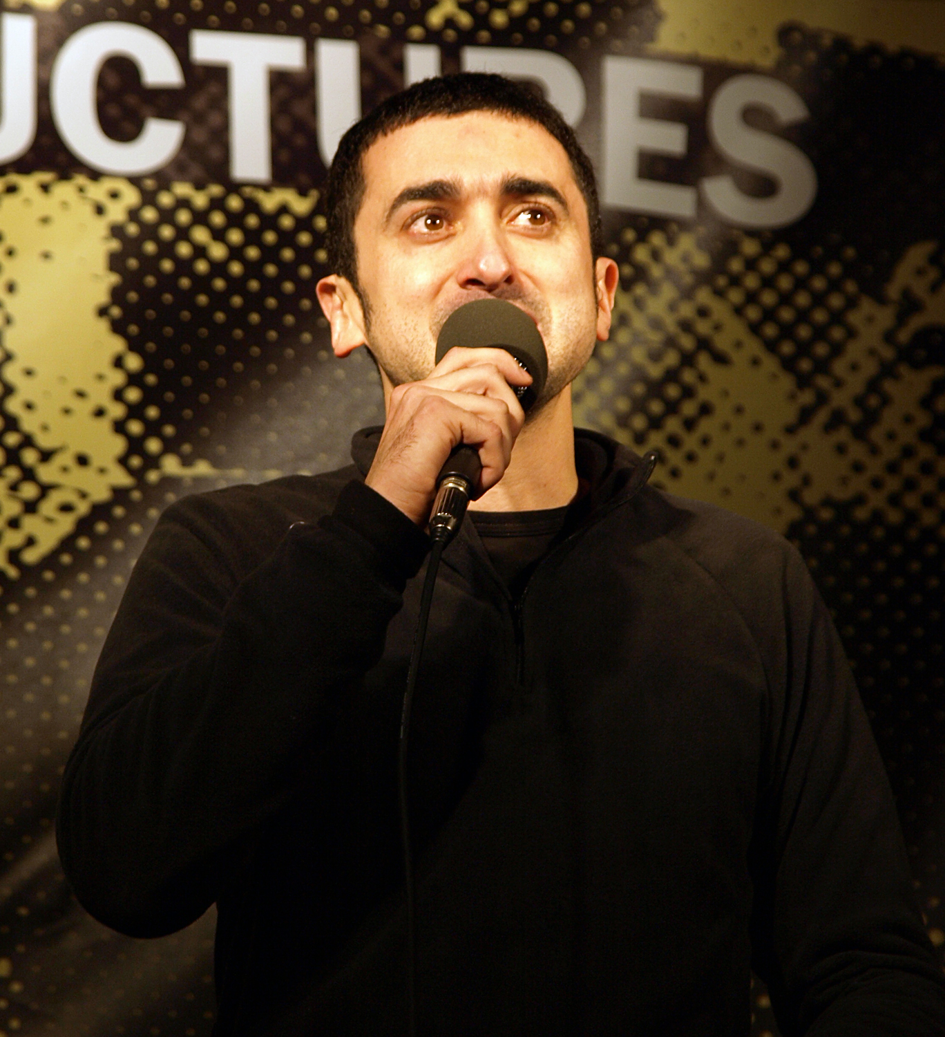 Feliu Ventura - Valencian musician